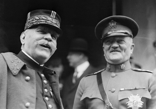 Joseph Joffre and John J. Pershing, April 22, 1922